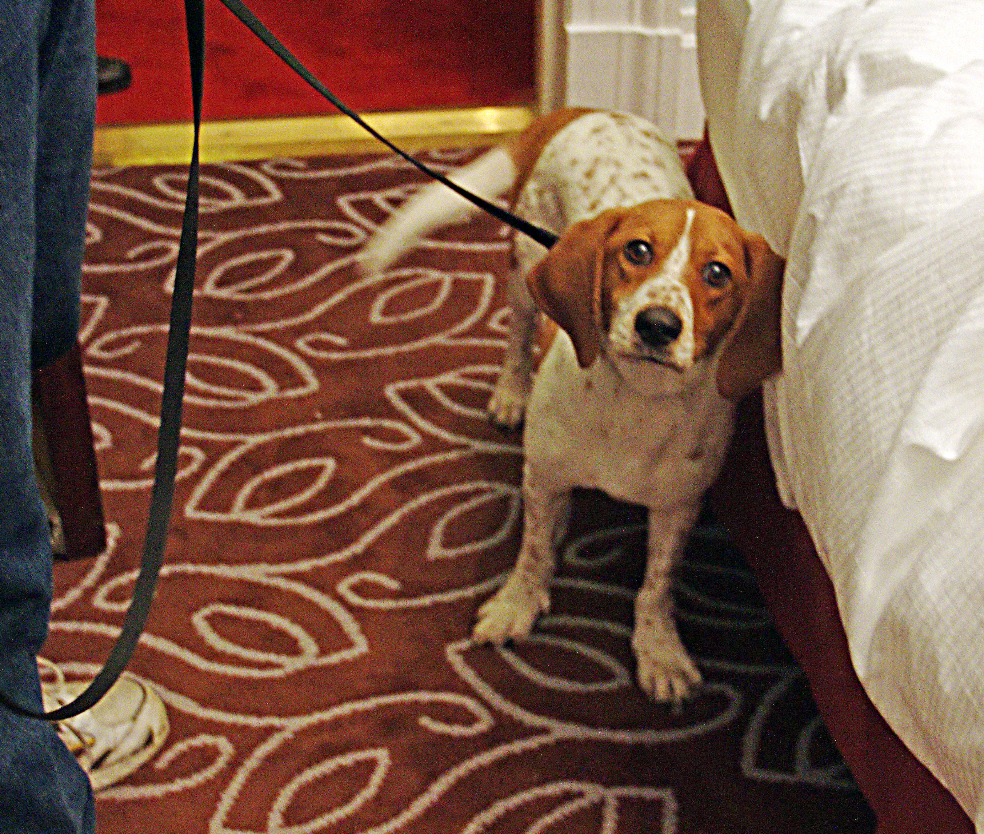 Bedbug sniffing Dog, New York